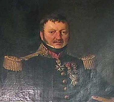 Ignace Louis Duvivier (1777-1853)